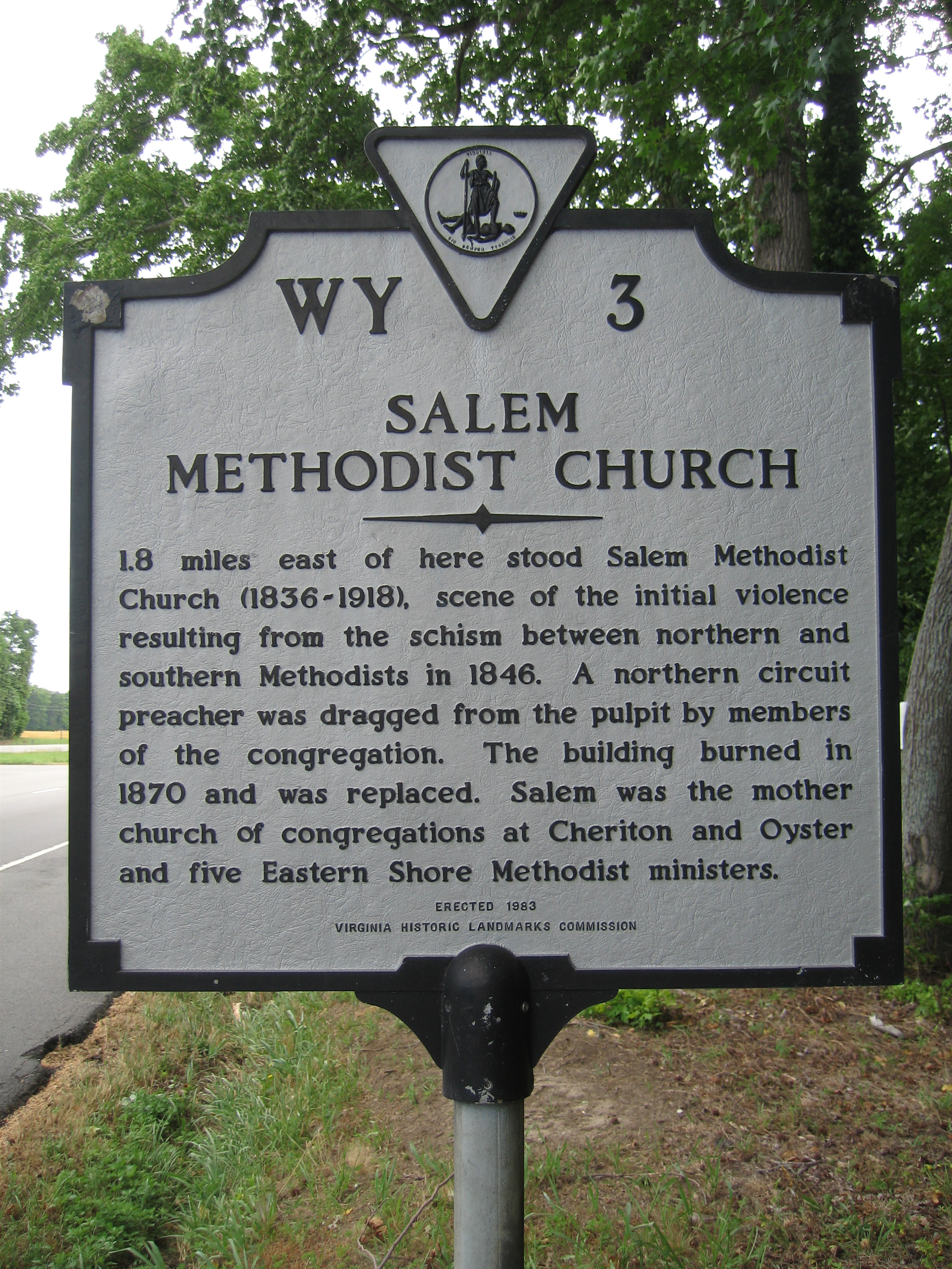 Historical marker designating the former site of the Salem Methodist Church. This marker is located on the east side of U.S. Route 13 (Lankford Highway) just south of Cobbs Station Road in Northampton County, Virginia between mile markers 82 and 83 near Cheriton.